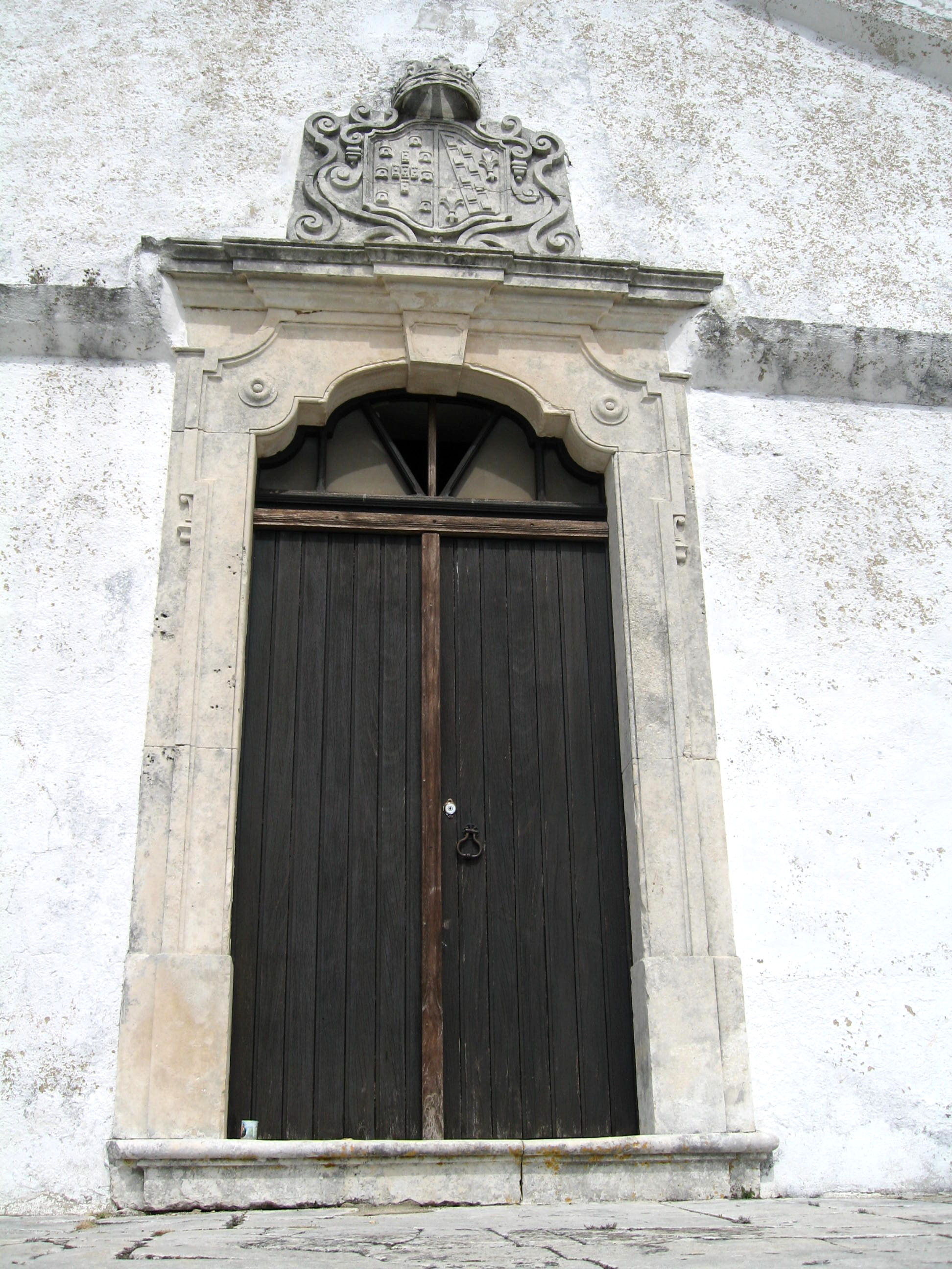 Alcobaça, Portugal, Mosteiro, Coutos de Alcobaça, Cós one the former old cities of the coutos, Ermida de Santa Rita, 17th century, entrance with insignia